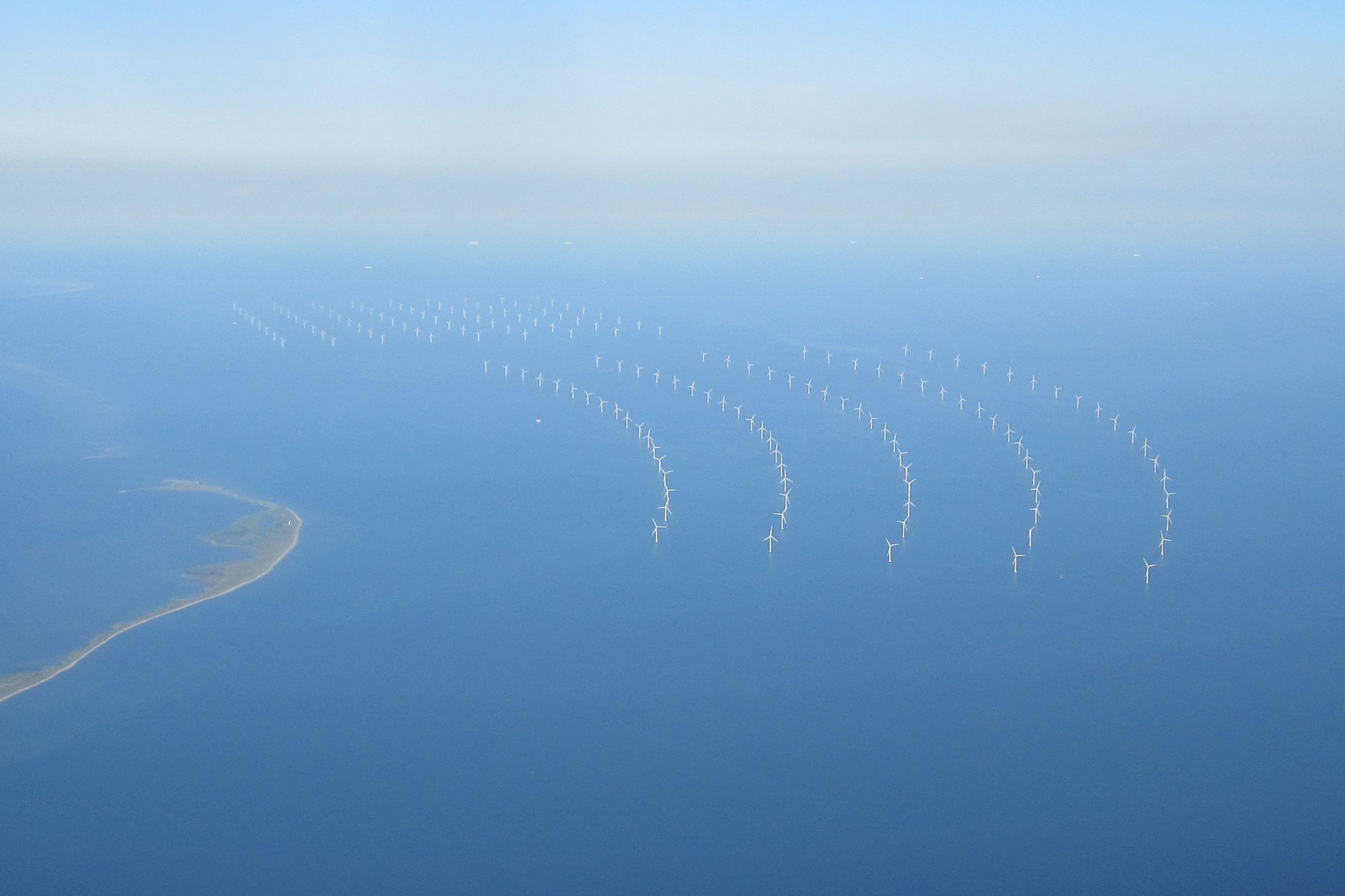 Rødsand I (background) and II (foreground)